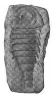 The Eurypterida of New York. Volume 1. New York State Museum Memoir 14, figure 49, Adelophthalmus approximatus